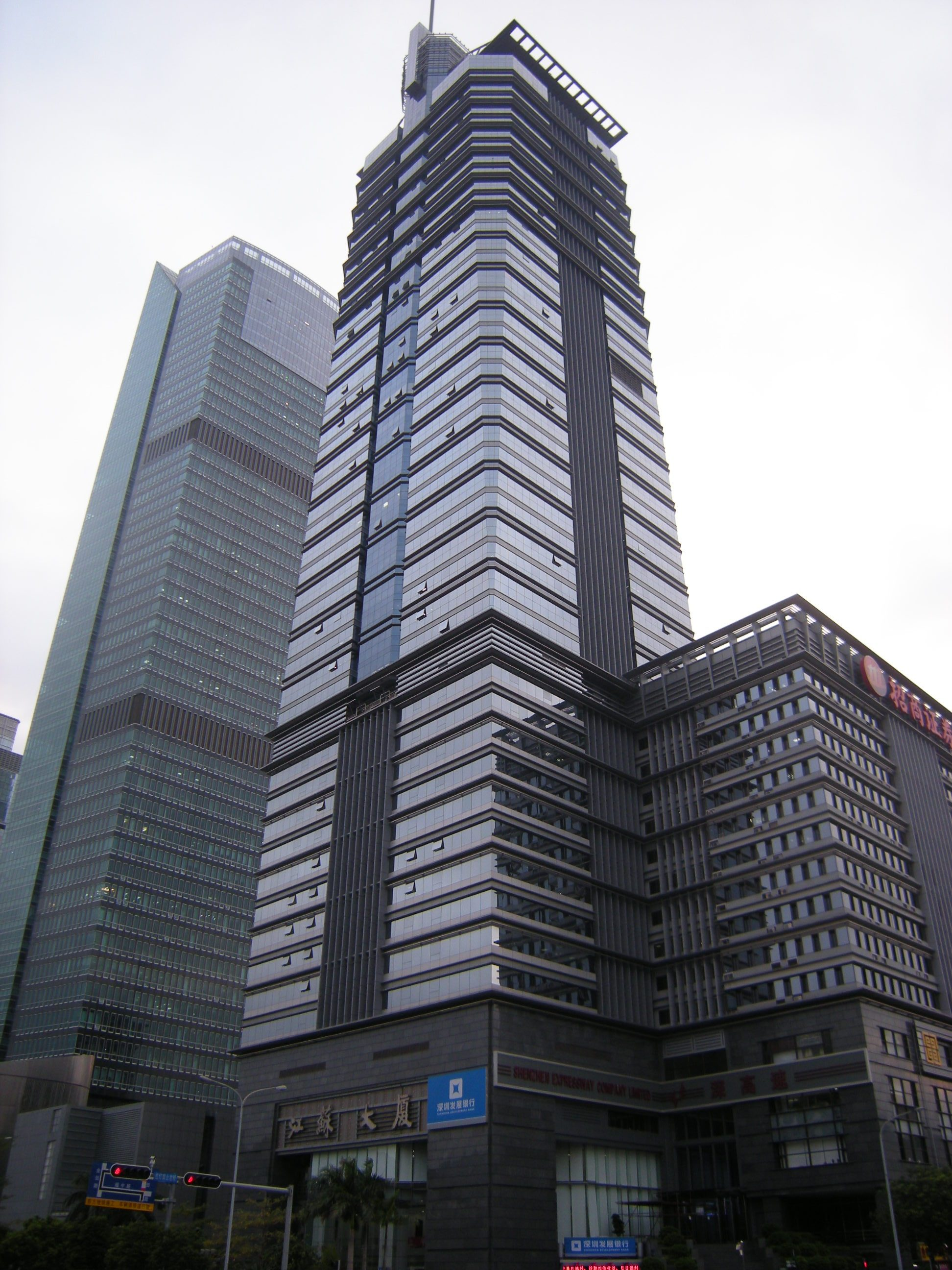 Jiangsu Mansion of Shenzhen